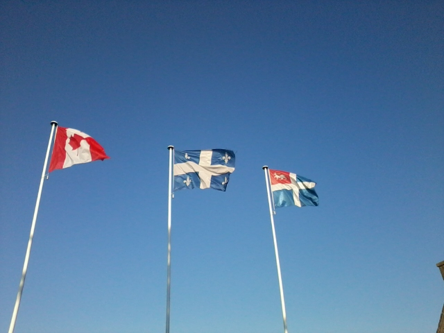 Flags of Canada, Quebec and Saint-Malo city at the Maison du Québec in Saint-Malo (France)